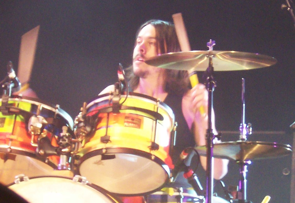 Ben Gillies at Webster Hall in New York City, February 13, 2007. Photo by Nikki Edwards.